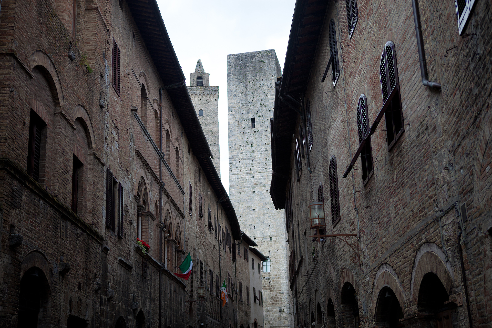 Small walled medieval hill town in the province of Siena with wonderful atmosphere - San Gimignano.